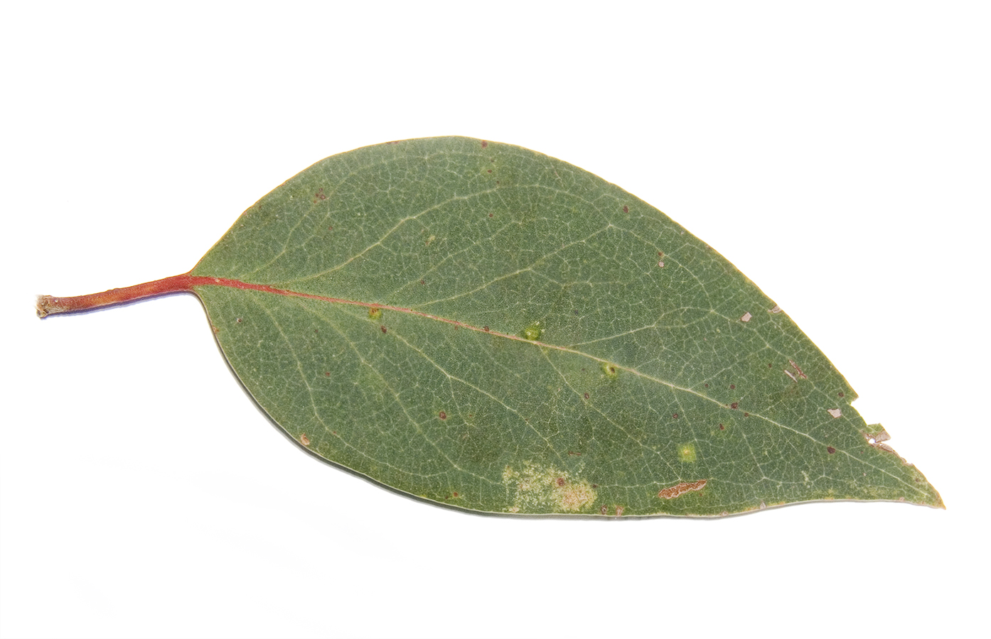 broad-leaved peppermint (Eucalyptus dives)